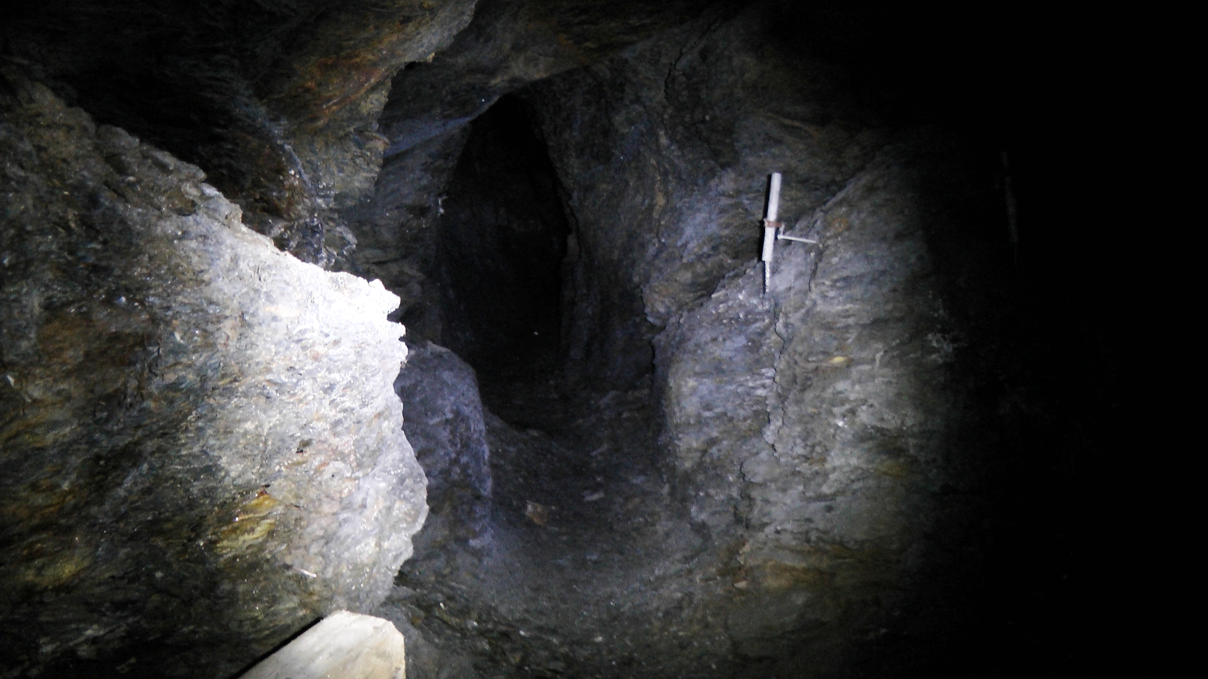 Arsenic show mine St. Blasen, Styria Austria